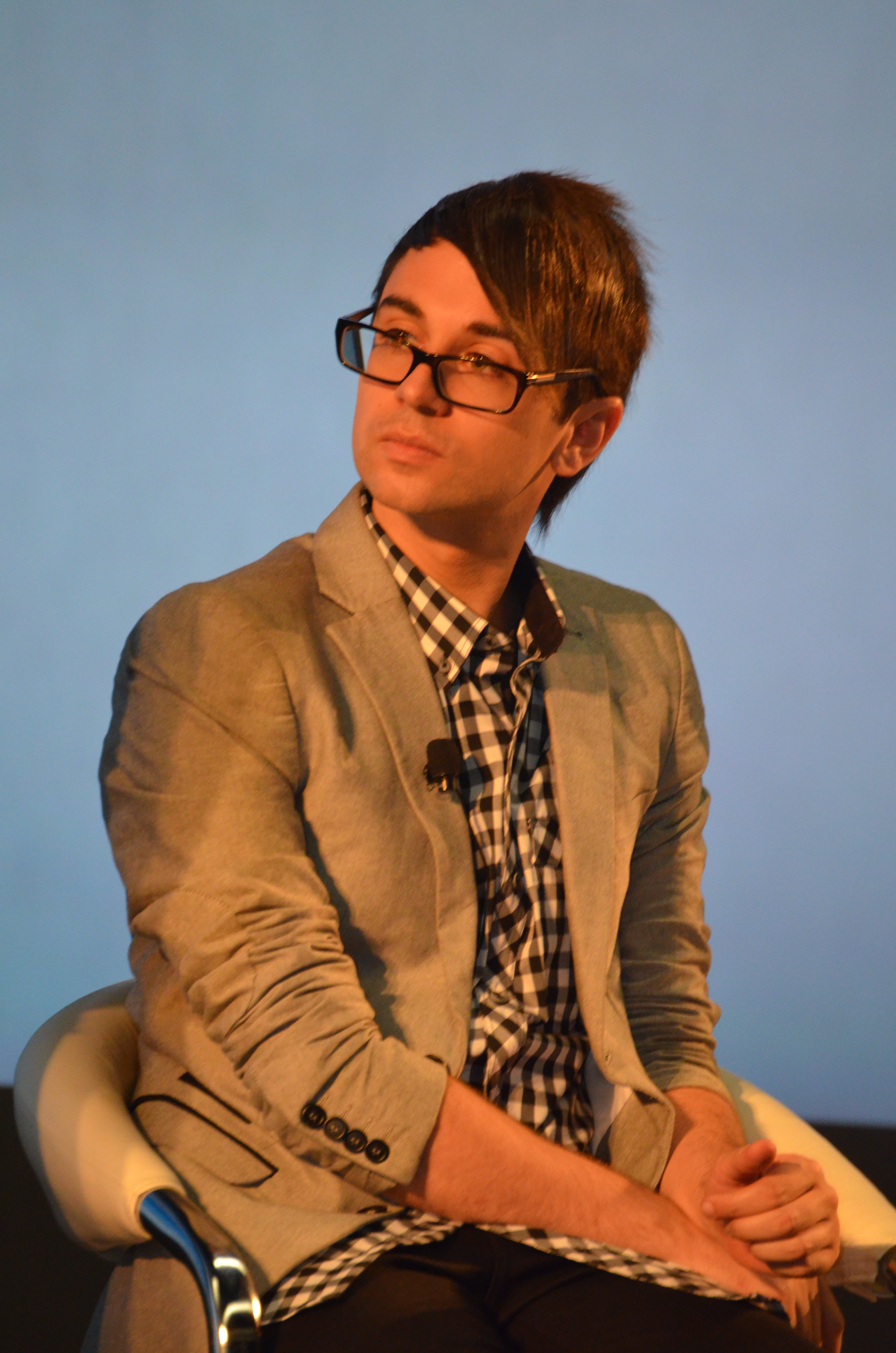 Image taken June 27, 2012 at the Age of Accessible Design Trend Session at Go Forward with Ford Conference